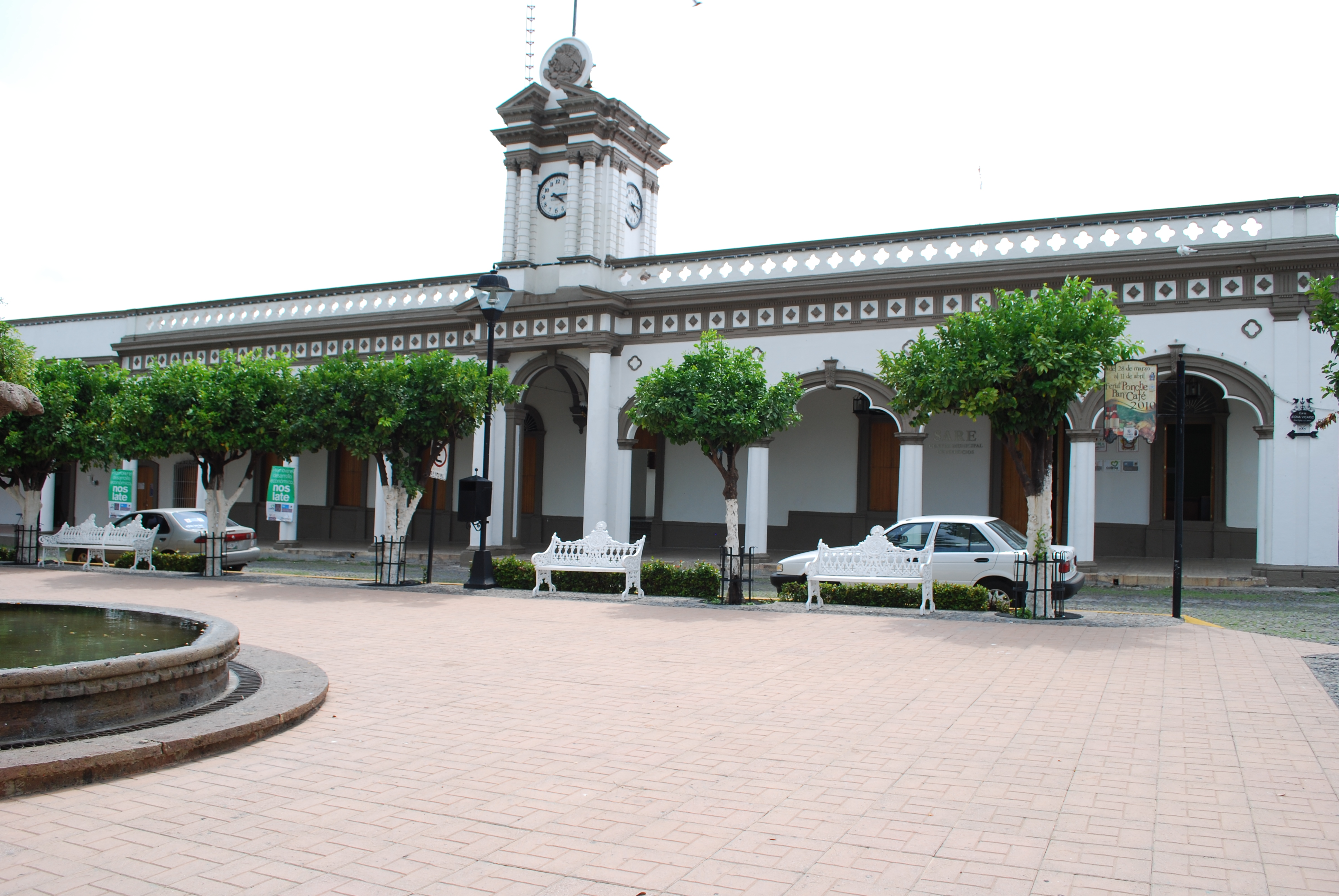 Municipal palace of Comala, Colima, Mexico